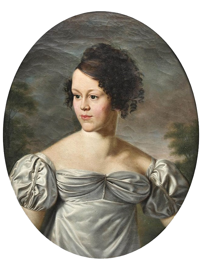 Portrait of Maria Sophia Dorothea Caroline, Princess of Thurn and Taxis (1800-1870)